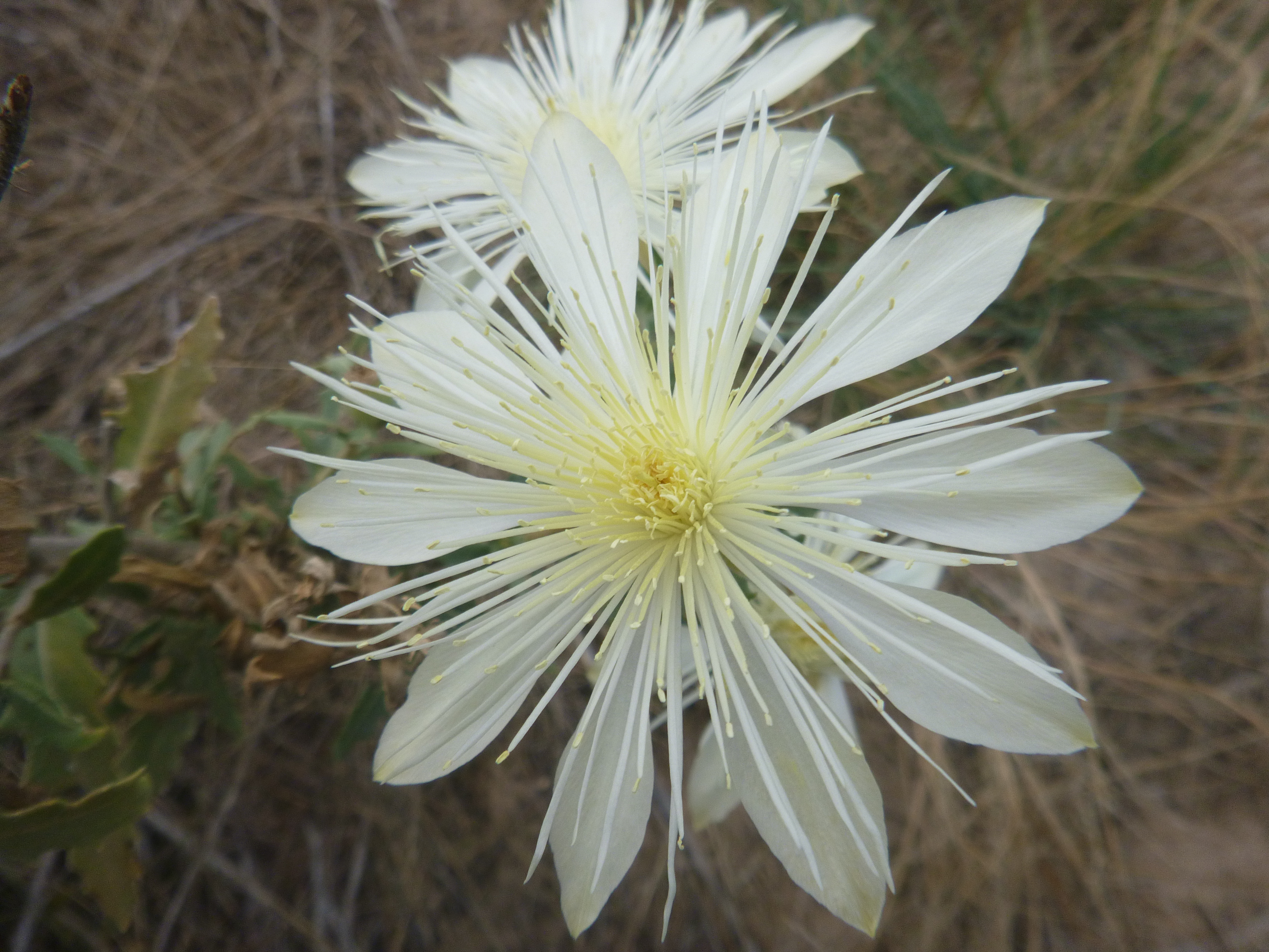 Flower of Mentzelia nuda (Loasaceae). Photo taken in Yuma County, Colorado in October 2016.